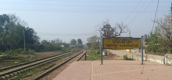 Rairangpur Railway Station, Indian Railways